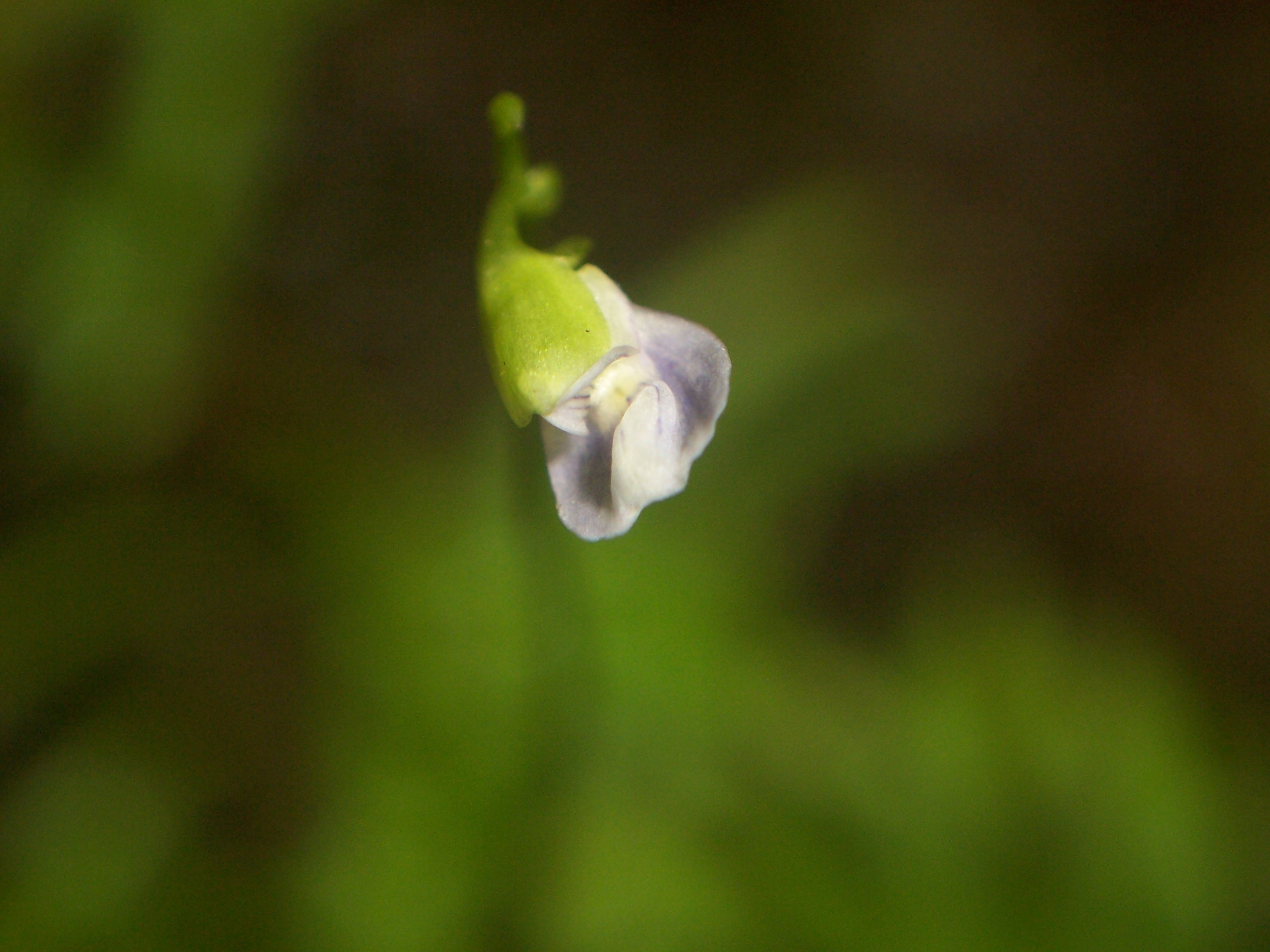 Utricularia uliginosa 's flower.